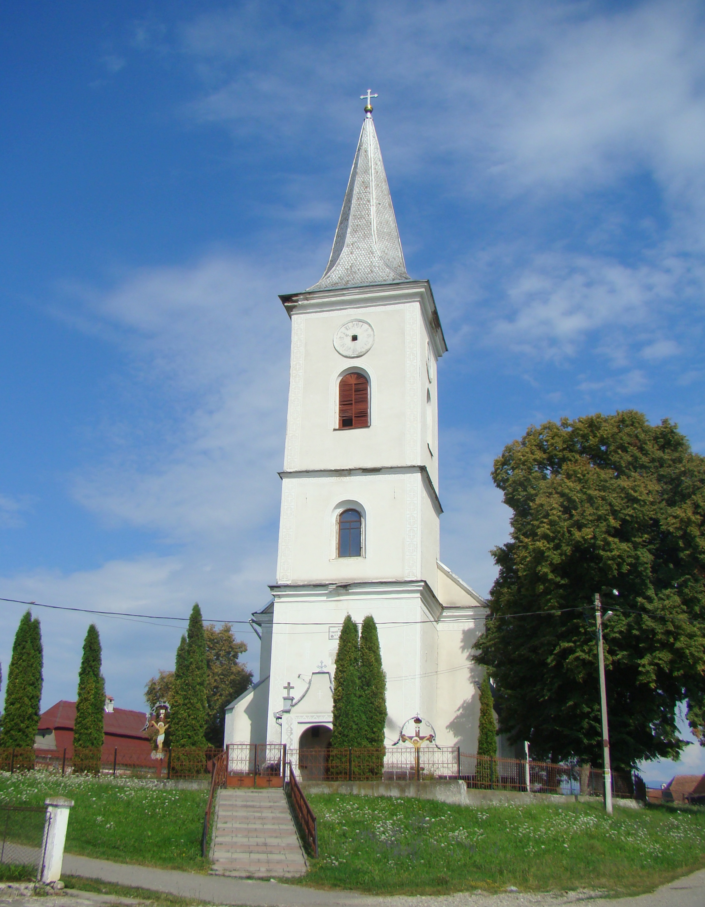 Church of the Dormition in Budacu de Jos, Bistrița-Năsăud county, Romania